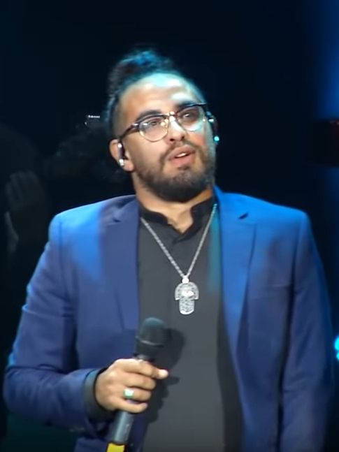 Benaia Barabi, 2018